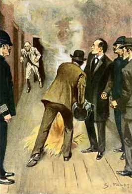 Sherlock Holmes in "The Adventure of the Norwood Builder."